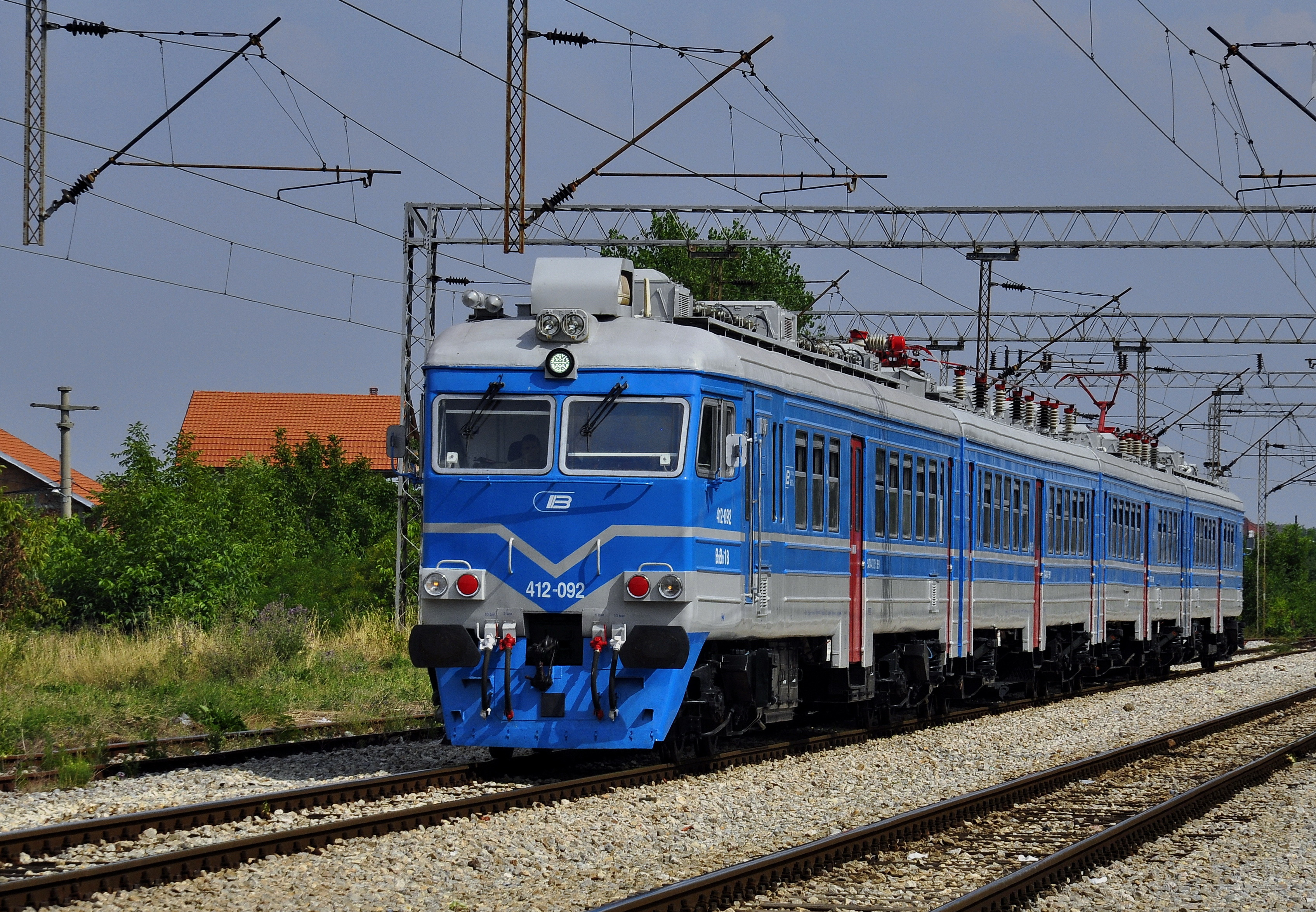 ŽS 412-064/092 at Zemun Polje railway station